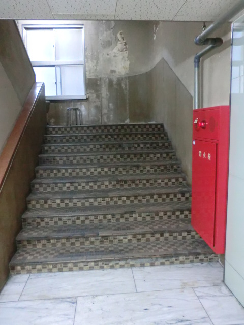 Old stairs of Washinton Building (former Kaneyasu Department Store) at Kitakyushu, Fukuoka, Japan.